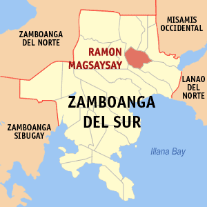 Map of Zamboanga del Sur showing the location of Ramon Magsaysay